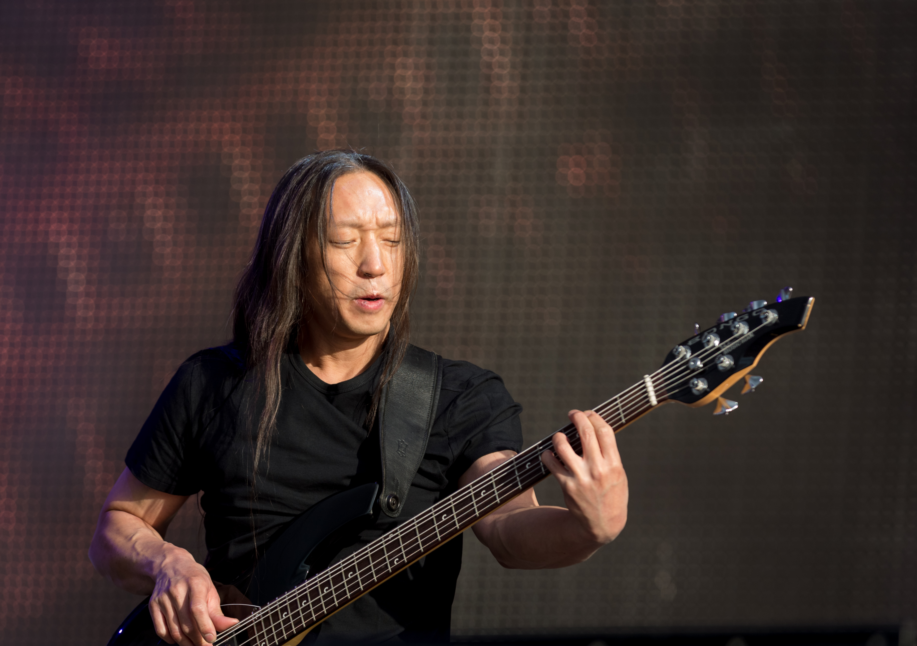 Dreamtheater - Wacken Open Air 2015